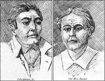 The Benders in Kansas (AKA Bloody Benders)